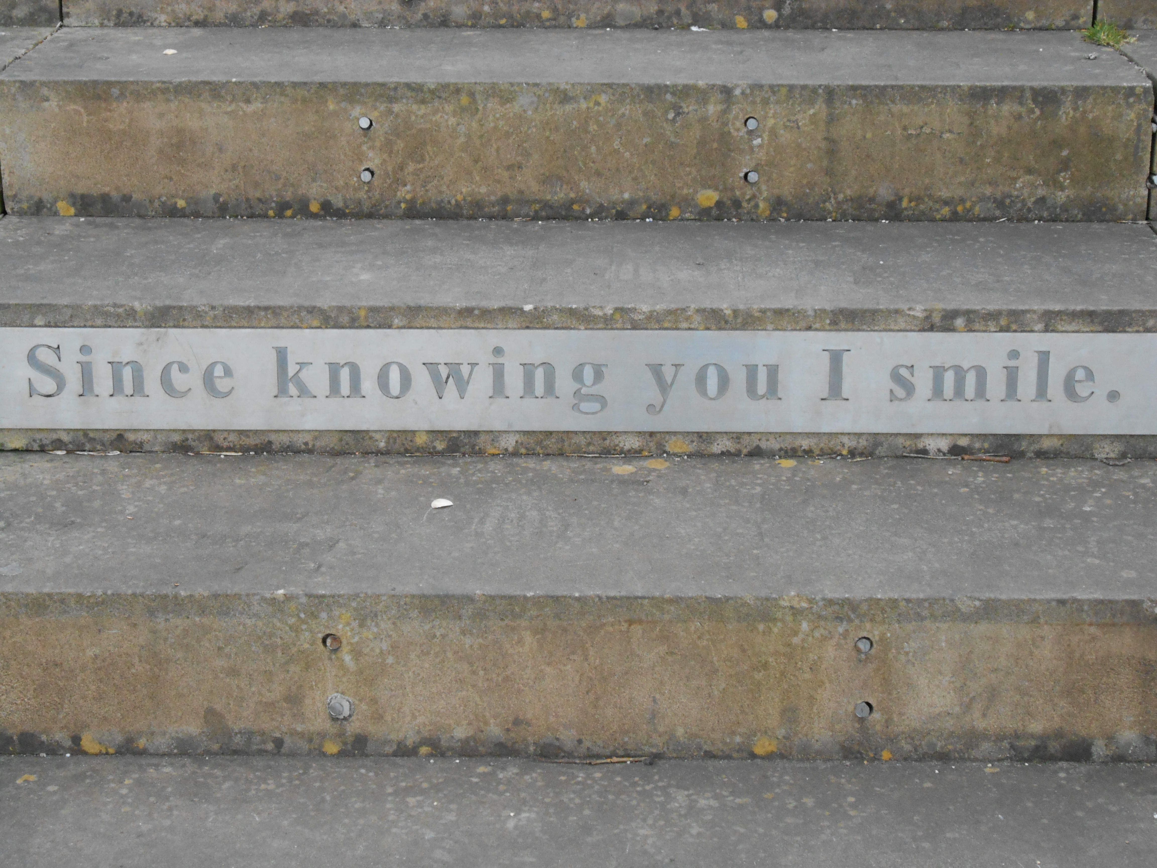 "Since knowing you I smile": part of the "Word Sculpture" at Hanley Park , Stoke-on-Trent, England.